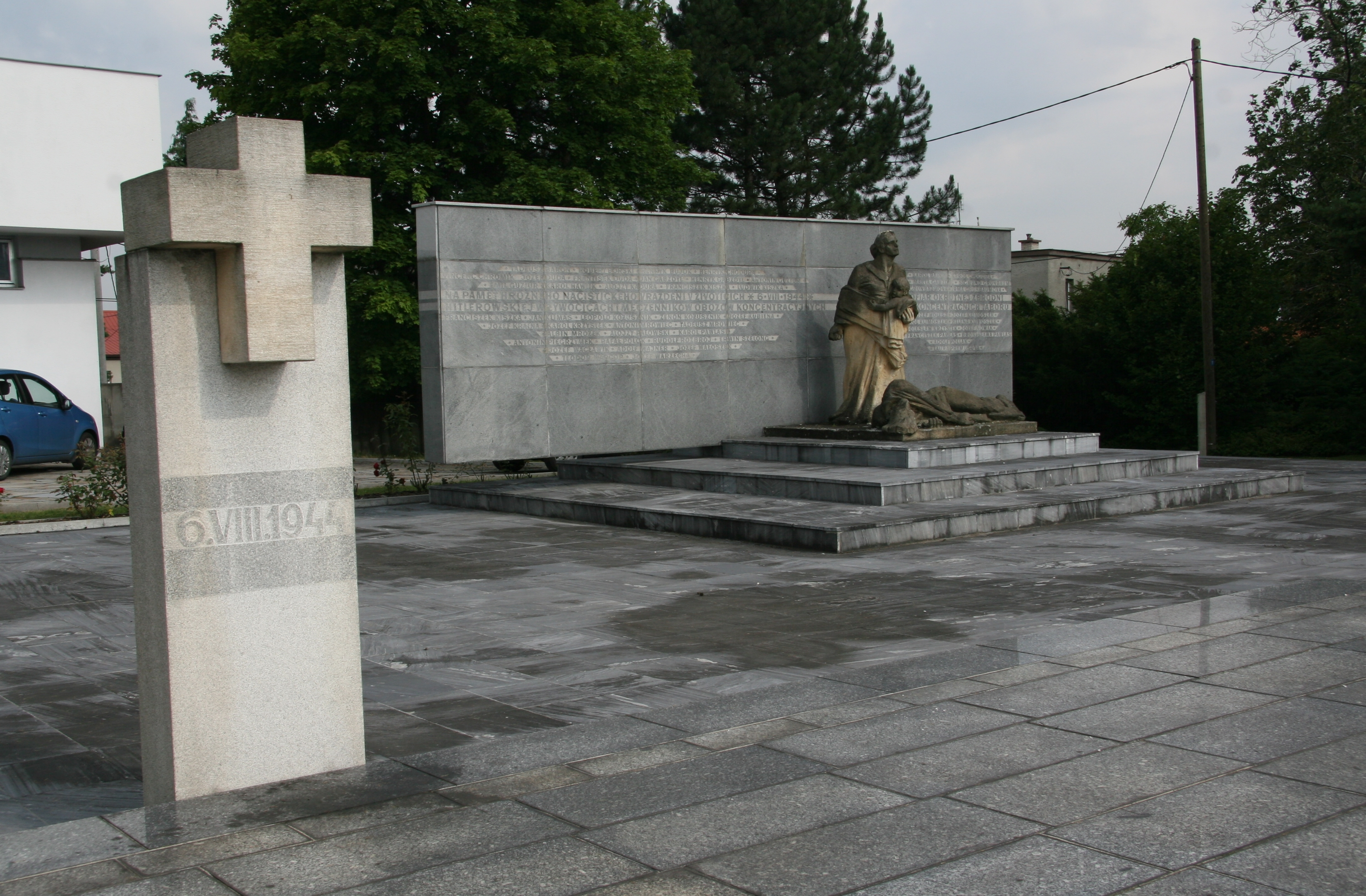 Životice Tragedy Memorial. Životice, Havířov, Karviná District, Moravian-Silesian Region, Czech Republic